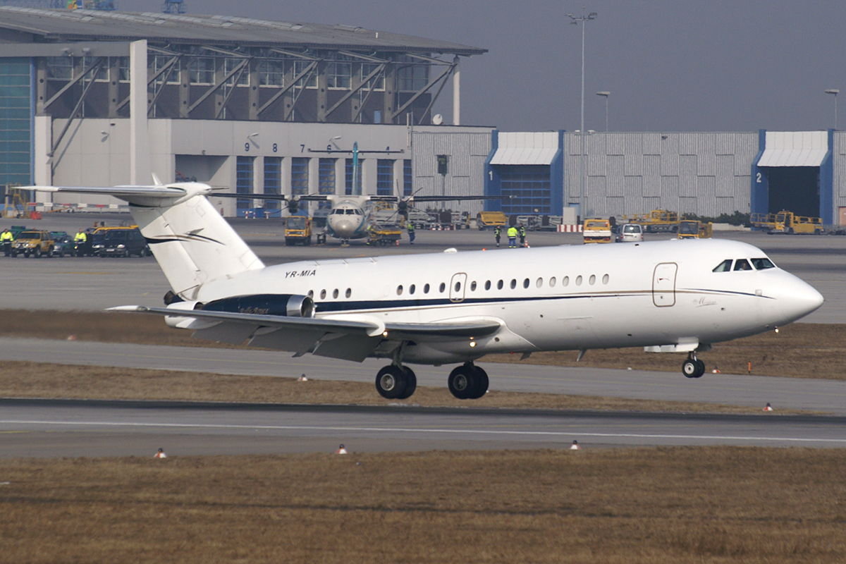 Mia Airlines BAC 1-11 (YR-MIA) at Stuttgart Airport (EDDS/STR)